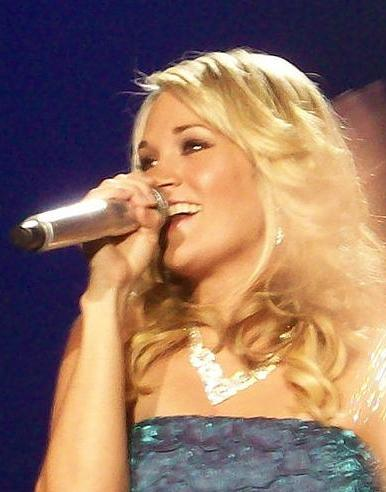 Carrie Underwood in concert May 2007